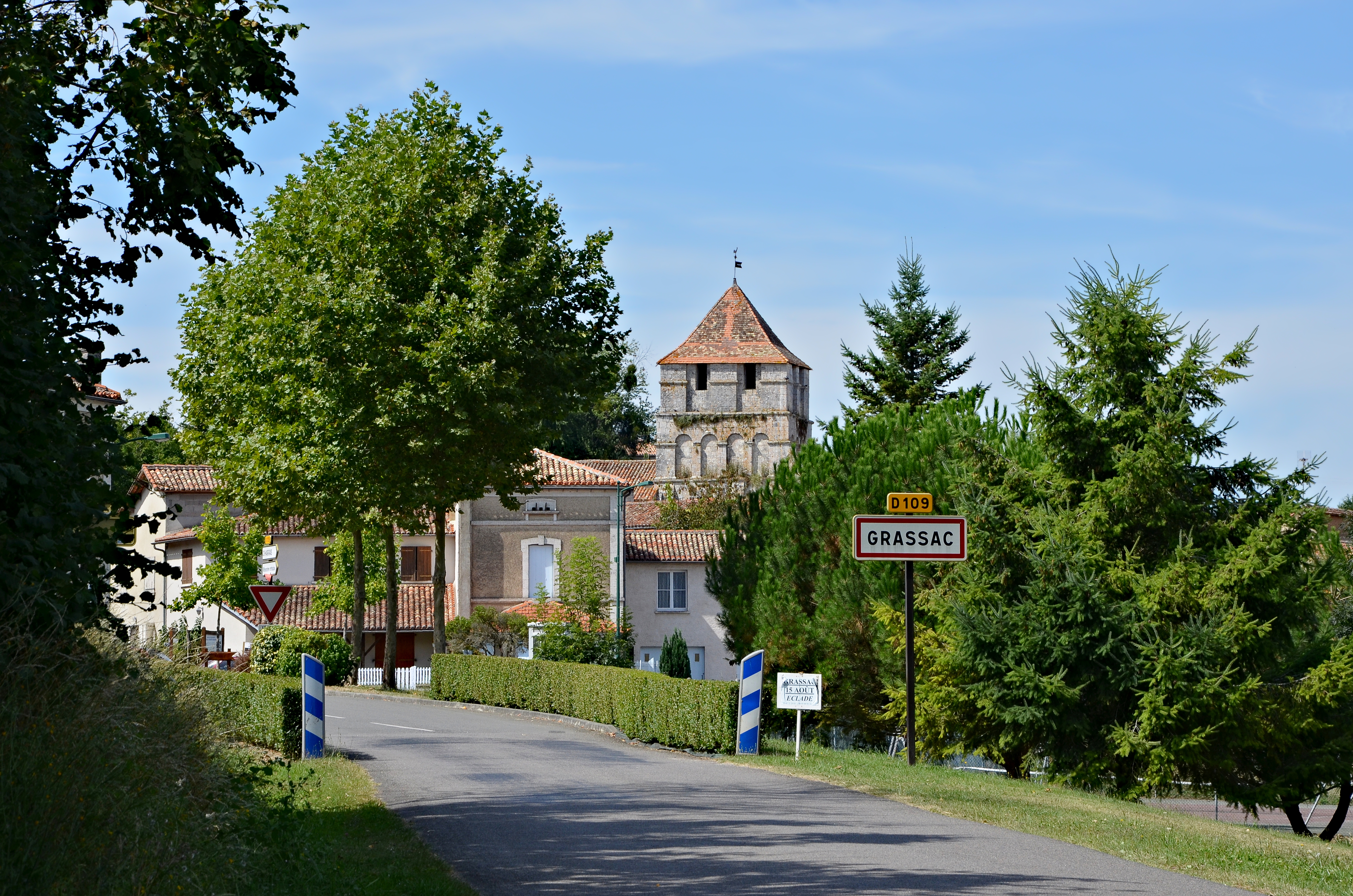 Entrance of the village by road D 109, Grassac, Charente,France.